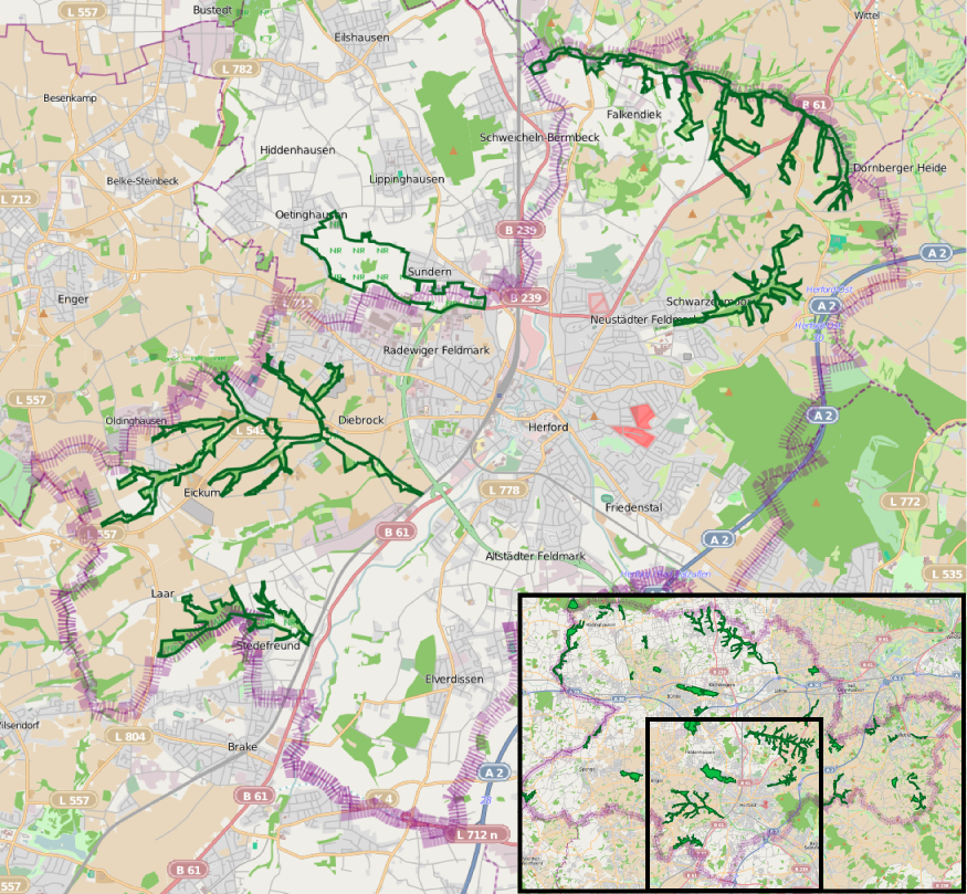 Nature reserves in Herford - overview map Number and borders of nature reserves are subject to frequent change. In order to facilitate reproduction of this map from openstreetmap, the following data is stored here: export boundaries: north: 52.175; west: 8.55; east: 8.77; south: 52.05; mapnik svg, scale 1:100.000 nature reserve boundary stroke weight 3.5; nature reserve stroke color: R 5, G 102, B 36; district border stroke weight: 20